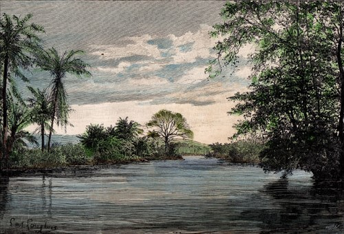 View Of The Banks Of Rio Dandé, Angola